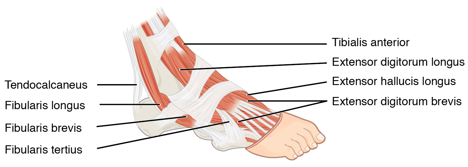 Caption: The muscles along the dorsal side of the foot (a) generally extend the toes while the muscles of the plantar side of the foot (b, c, d) generally flex the toes. The plantar muscles exist in three layers, providing the foot the strength to counterbalance the weight of the body. In this diagram, these three layers are shown from a plantar view beginning with the bottom-most layer just under the plantar skin of the foot (b) and ending with the top-most layer (d) located just inferior to the foot and toe bones. URL: Other versions